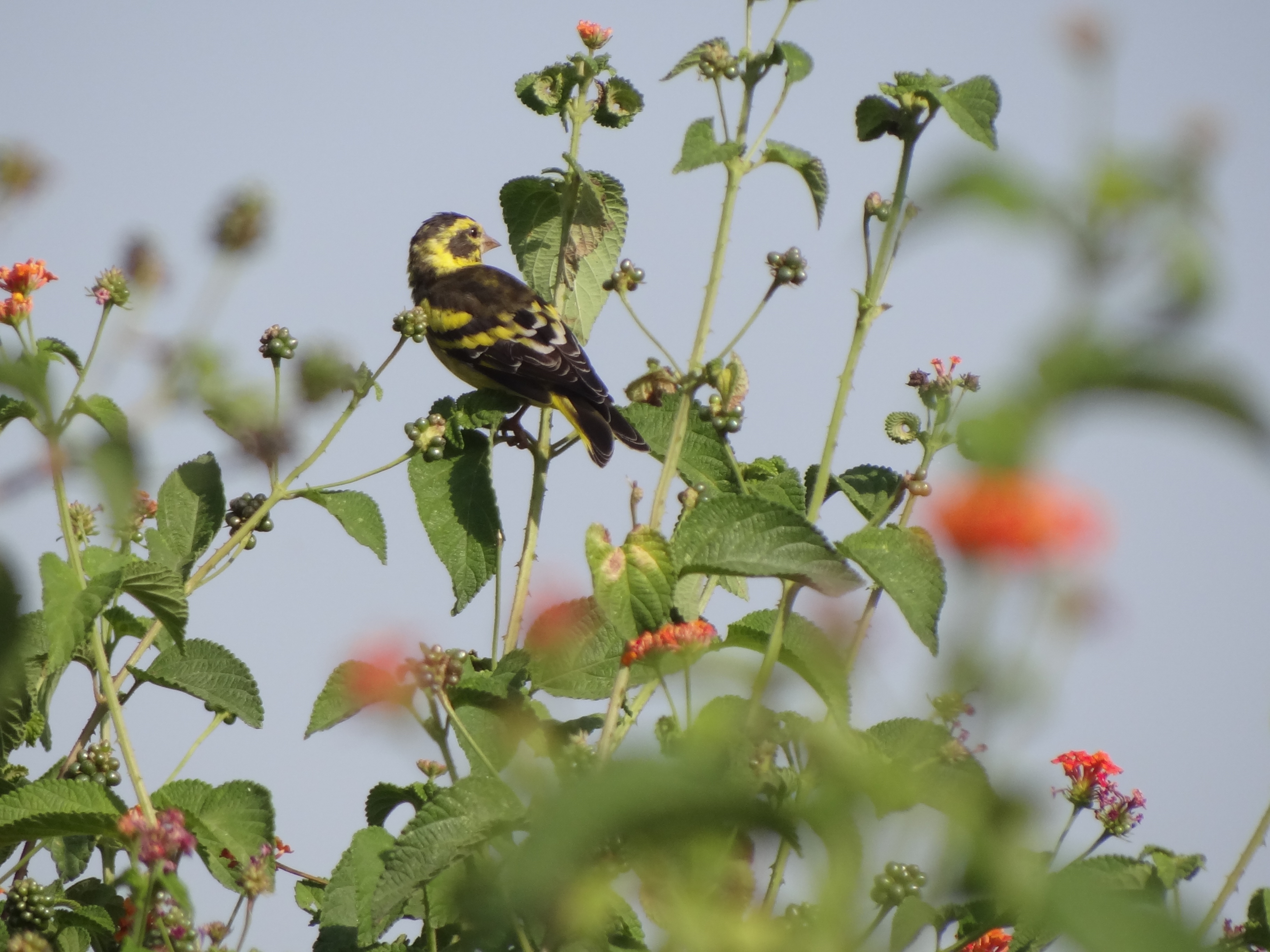 Yellow-breasted Greenfinch - Chloris spinoides